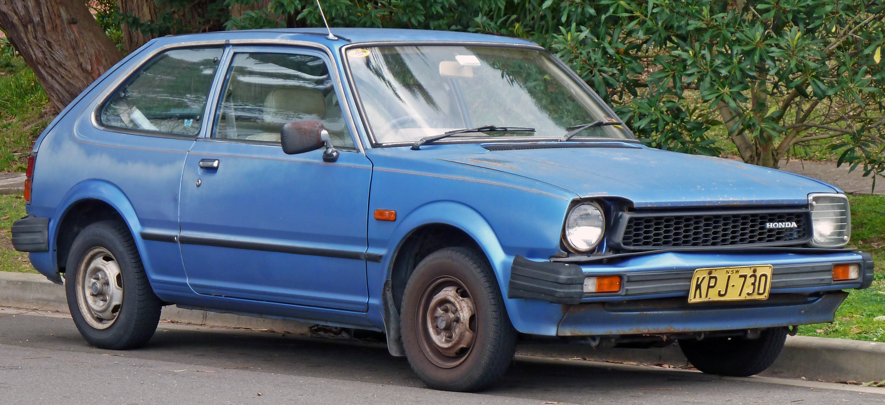 1980 Honda Civic 3-door hatchback. Photographed in Gymea, New South Wales, Australia.